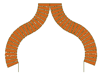 Ogee-shaped arch